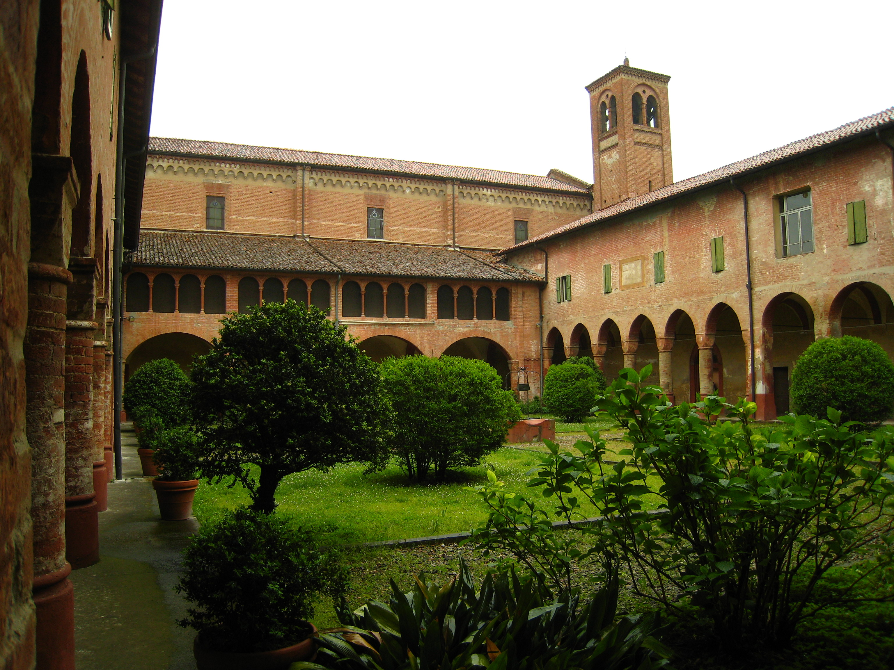 Italy - Busseto - Santa_Maria_degli_Angeli